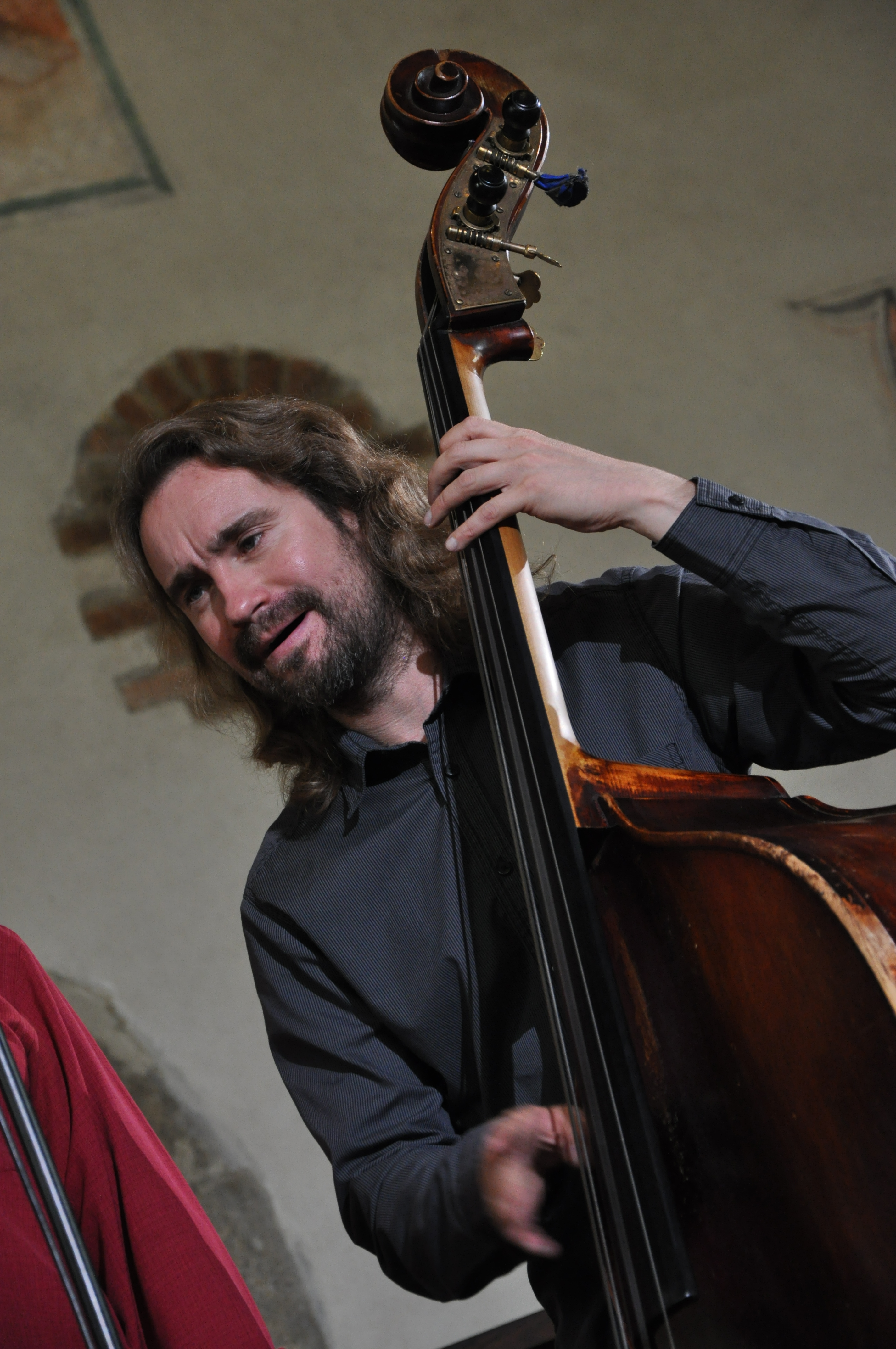 Pavel Peroutka, member of czech music group Spirituál kvintet during concert in Prague, Czech Republic